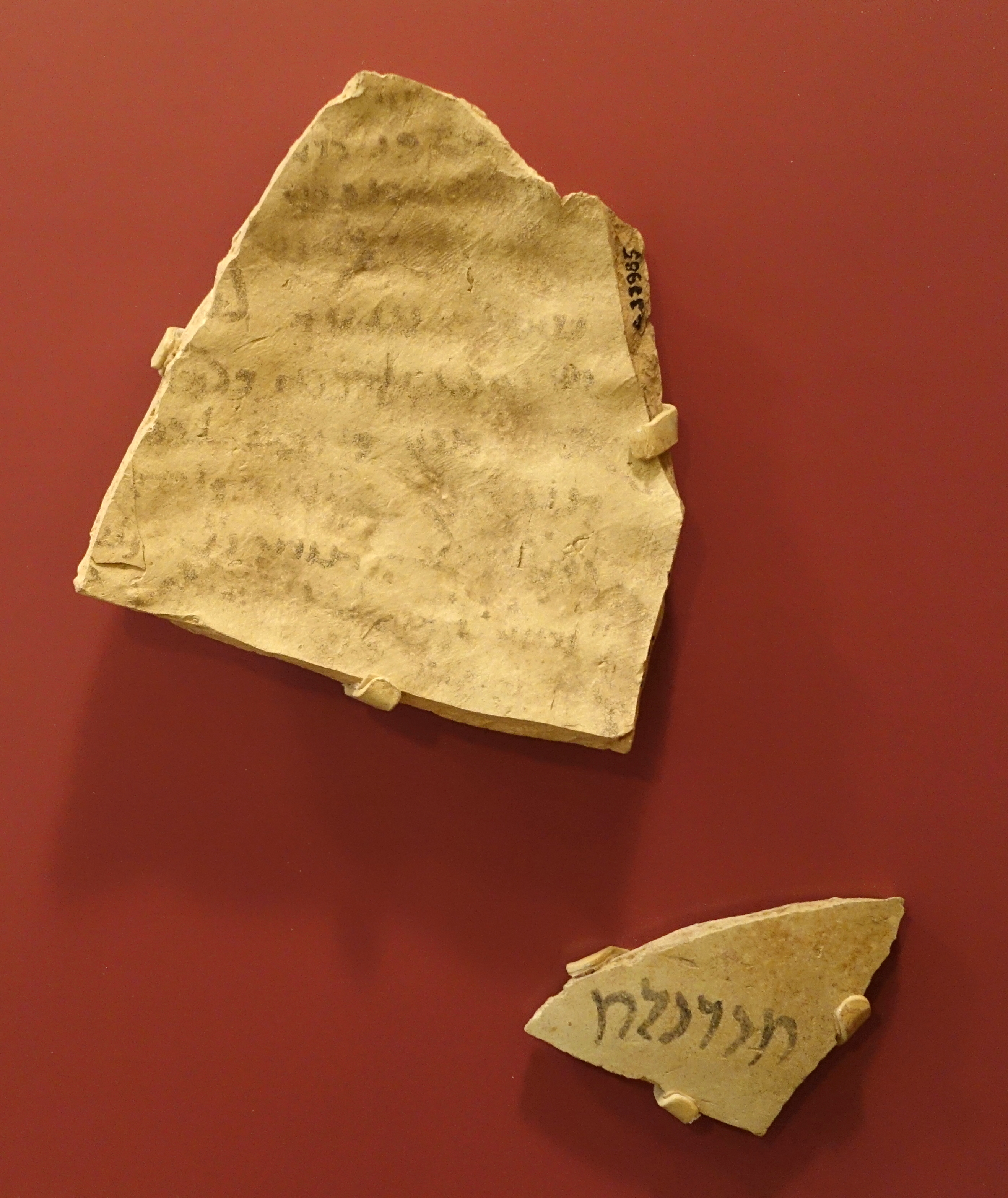 Exhibit in the Oriental Institute Museum, University of Chicago, Chicago, Illinois, USA. This work is old enough so that it is in the public domain.